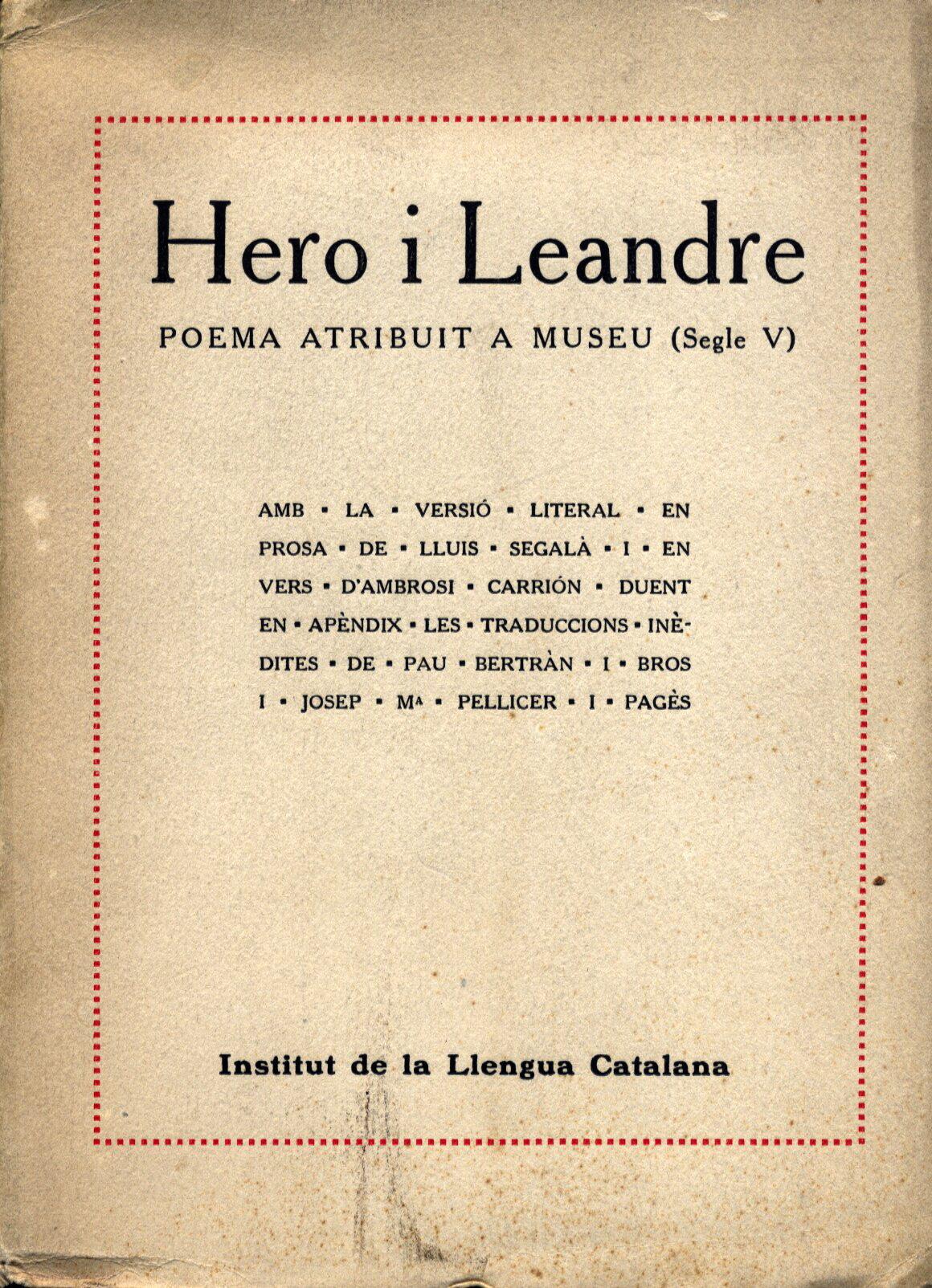 Own copy of the book by Mousaios (died V Century AD), Lluís Segalà (died 1938), Conrad Roure (died 1928), Pau Bertran (died 1891) and Josep Mª Pellicer (died 1903)